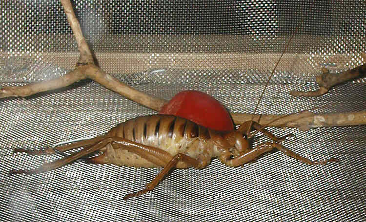 Deinacrida fallai, Poor Knights Giant Weta at Bristol Zoo, Bristol, England. The red object is a tomato.